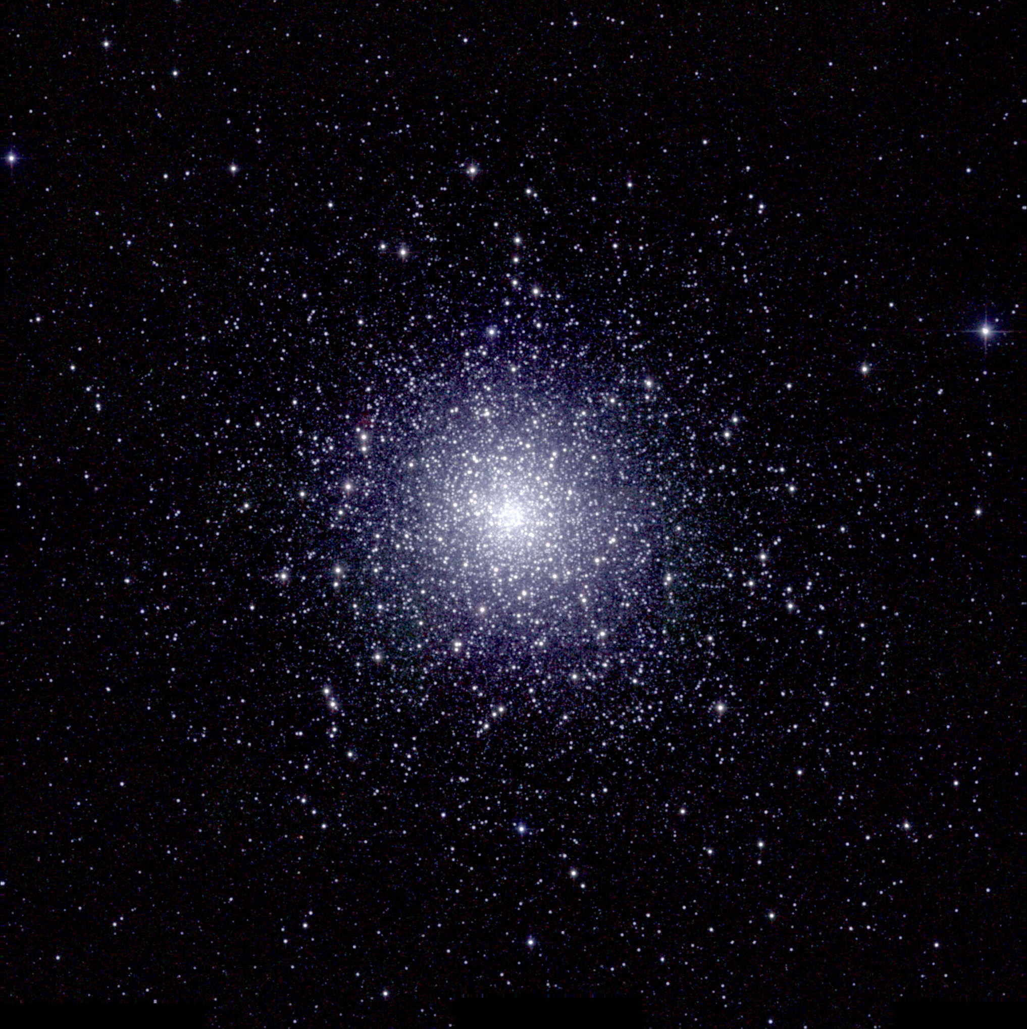 47 Tucanae is the second brightest "globular cluster" visible from Earth, though it can only be seen from the Southern Hemisphere. Globular clusters are particularly large, dense collections of thousands, even millions of stars that are so tightly bound together by gravity that they stay together for billions of years. Located about 20,000 light years from Earth, 47 Tucanae remains impressive due to its sheer size, containing around a million stars. Only a small fraction of the very brightest ones can be seen in this image. About half of its stars fall within a region 25 light years across though the entire cluster spans well over 100 light years. This image is 34 arcminutes across, just over half a degree. The infrared colors of these stars are very uniform, showing almost no variation.